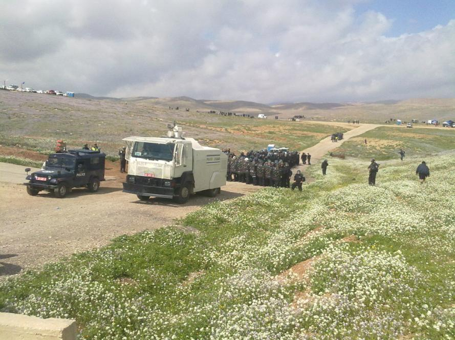 a Water cannon of the israeli police